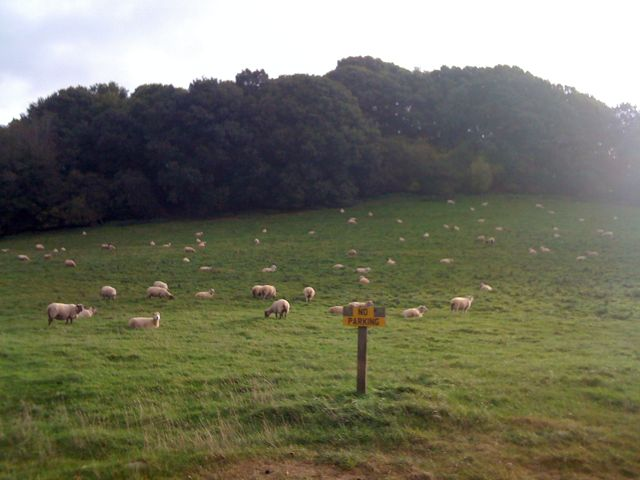 Grist Castle Wood The wood is presumably named after the Castle that stood on top of it. Could 'Grist' be a corruption of the Welsh for Christ?